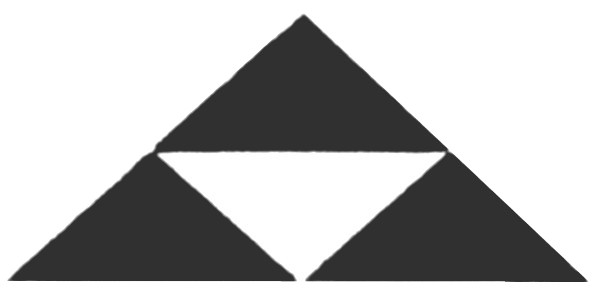 Japanese crest of Hôjô, called Hôjô uroko